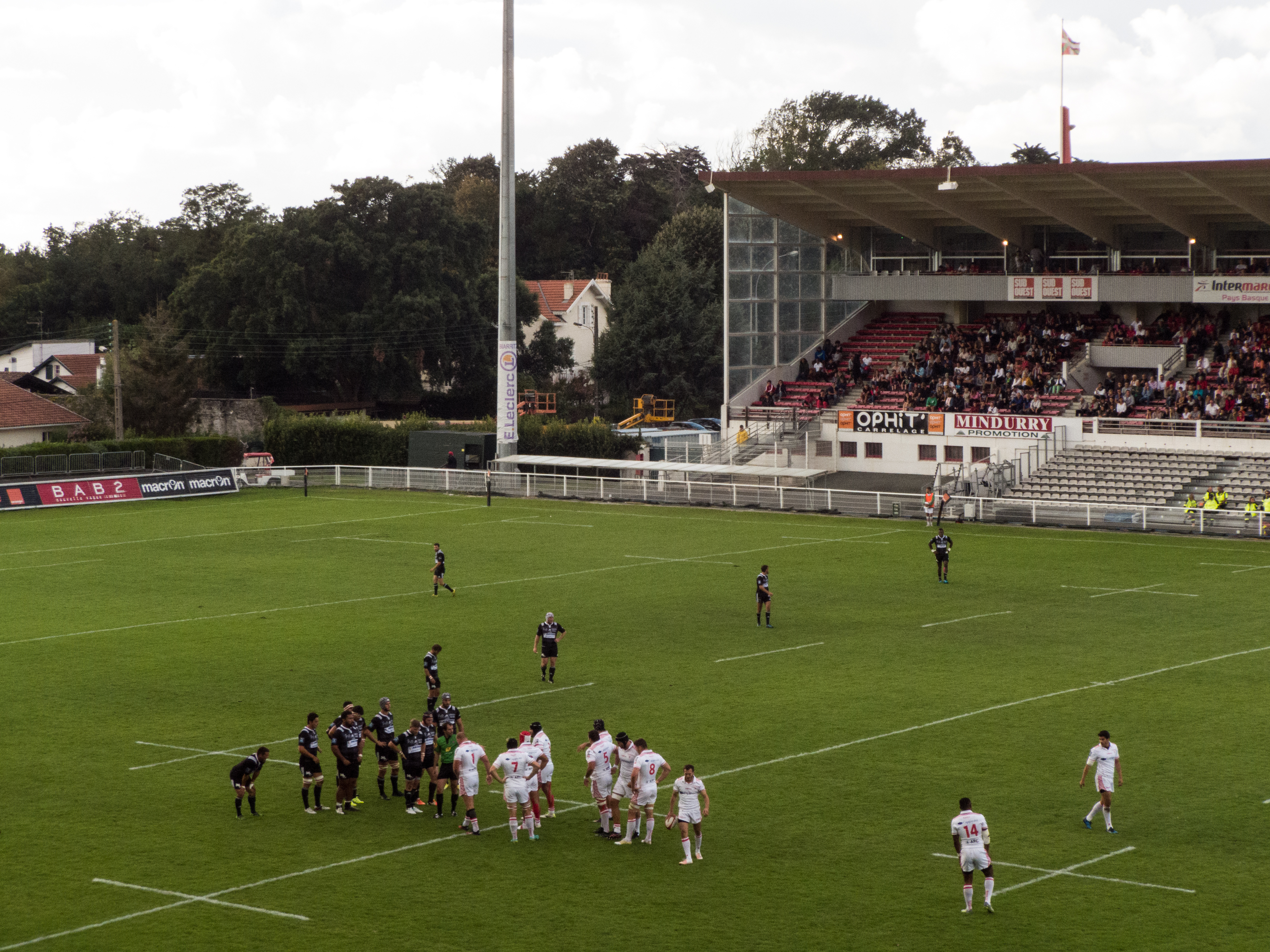 rugby union friendly match — 10 August 2017, Parc des Sports Aguiléra. Match between: Biarritz Olympique — US Dax